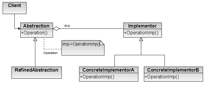 The Bridge design pattern UML diagram